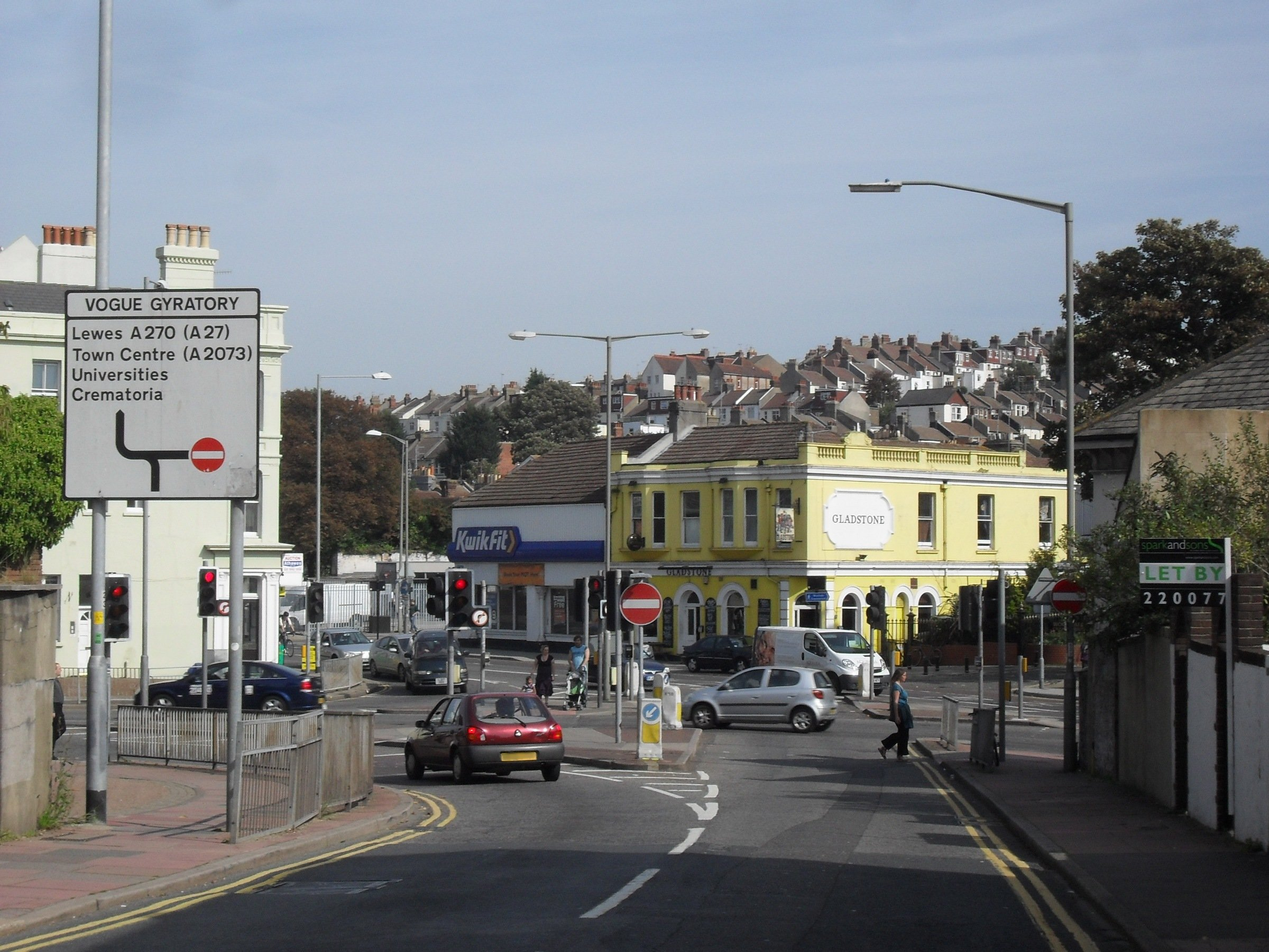 The Vogue Gyratory, a 1980s road system in the Round Hill area of the City of Brighton and Hove, England. Built on the site of a former railway viaduct, inter alia.